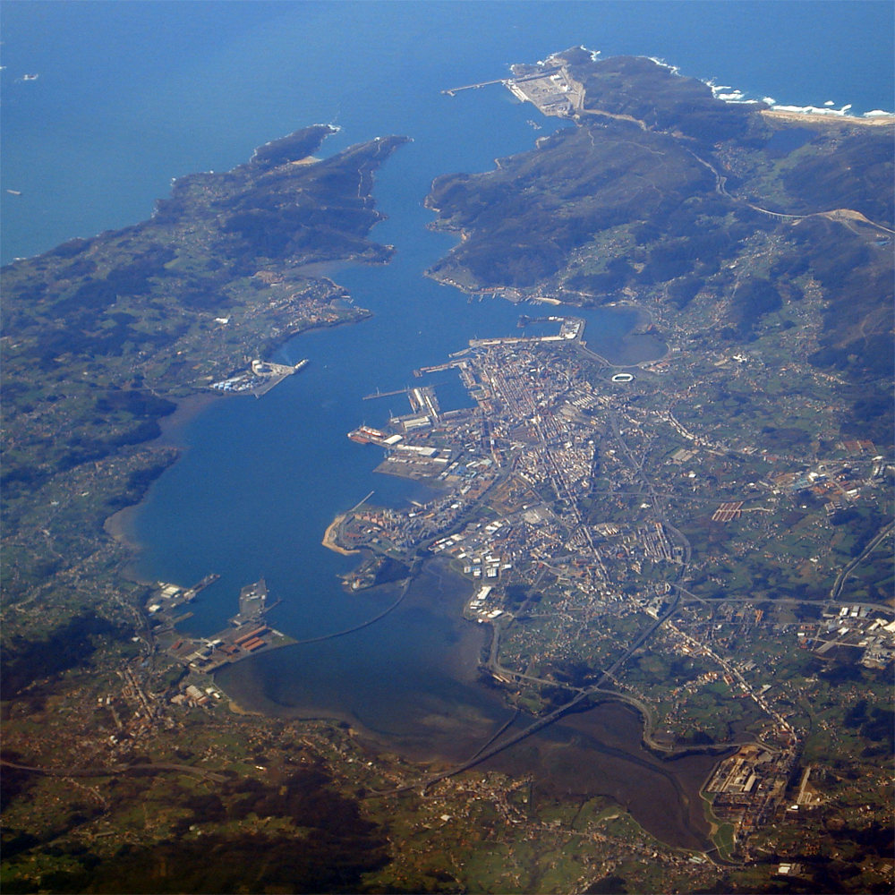 City of Ferrol, Spain taken from a Thomas Cook Airlines Airbus A320 en-route from Leeds to Tenerife.